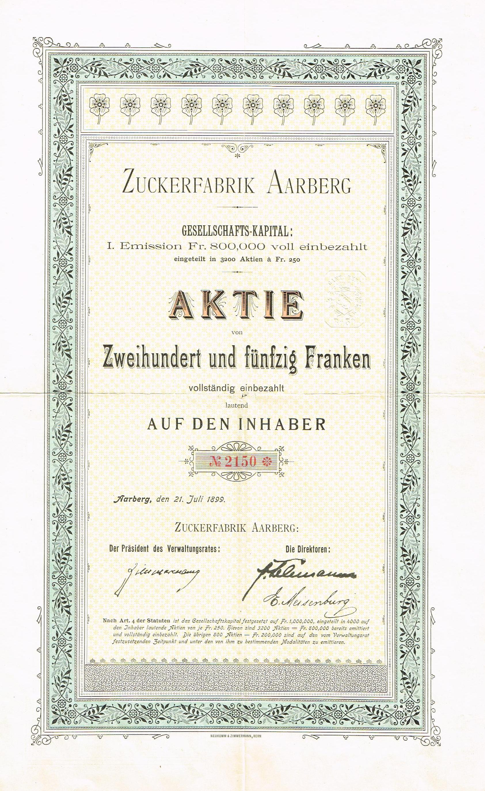 Share of the Zuckerfabrik Aarberg, issued 21. July 1899